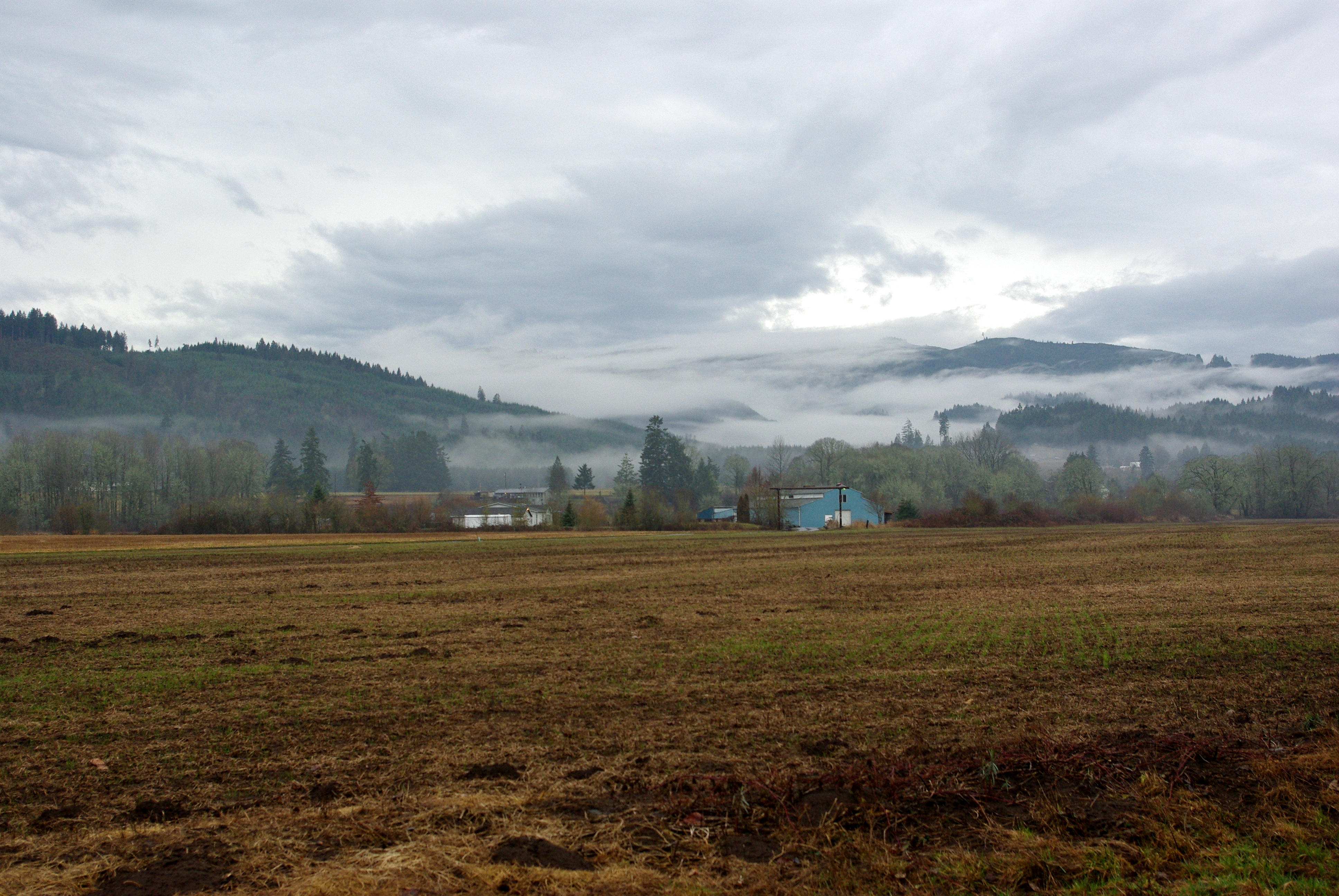 Northern Oregon Coast Range blanketed in fog. From Gales Creek Road looking west near Balm Grove, Oregon.